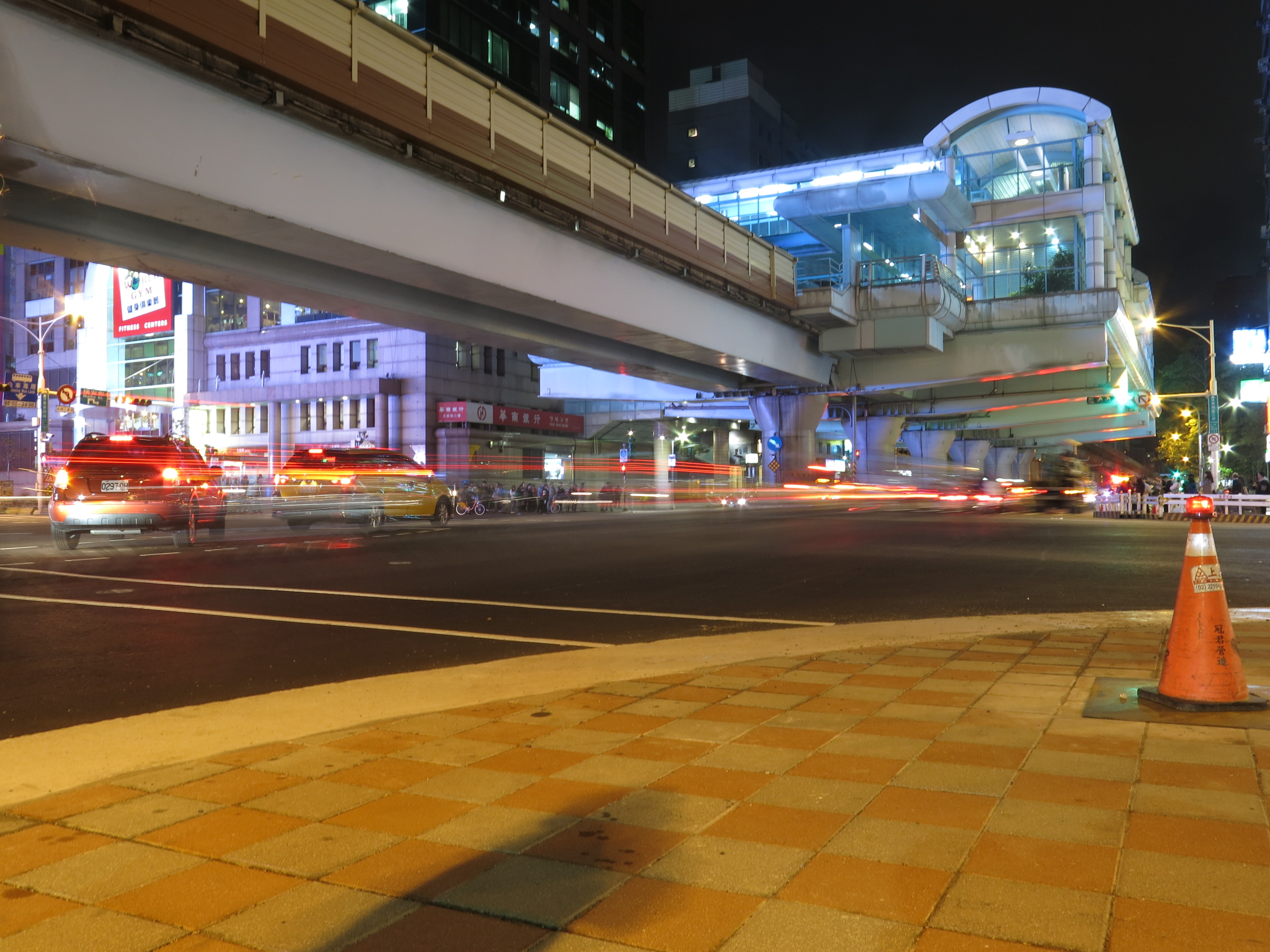 TRTC Daan Station in the nighttime